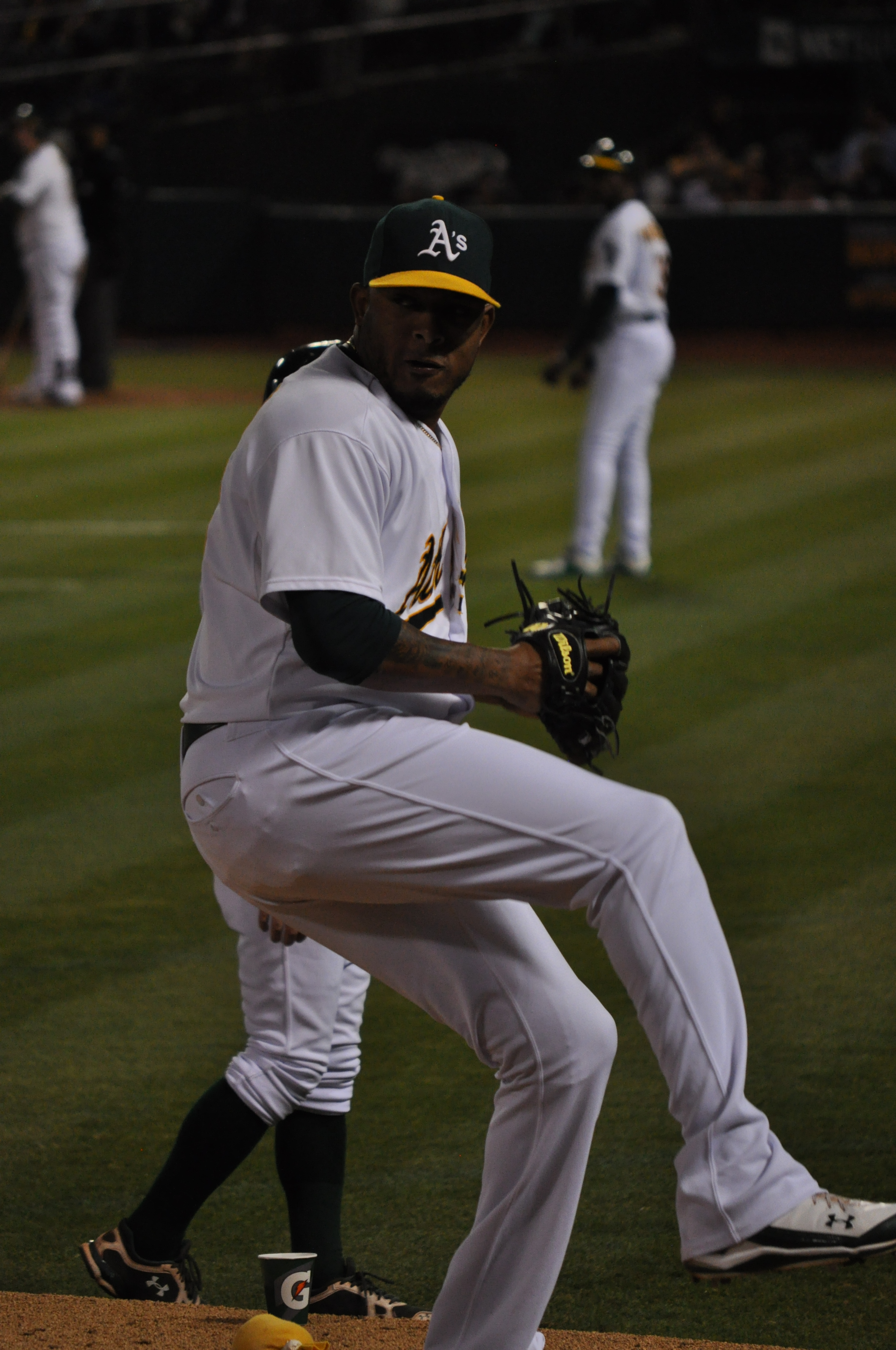 Fernando Abad warms up before the 9-4-15 A's-Mariners game